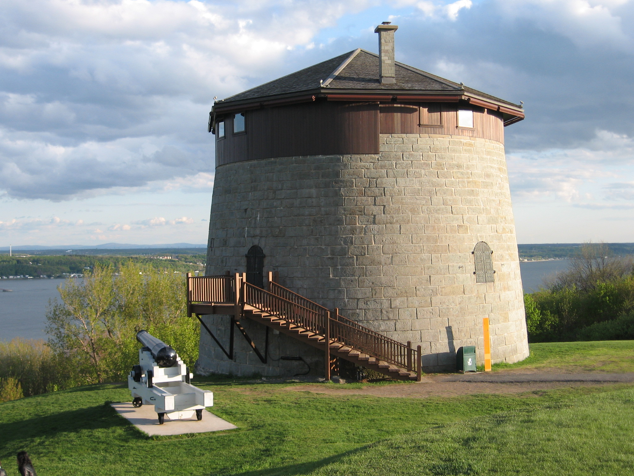 Martello Tower, Québec, Canada